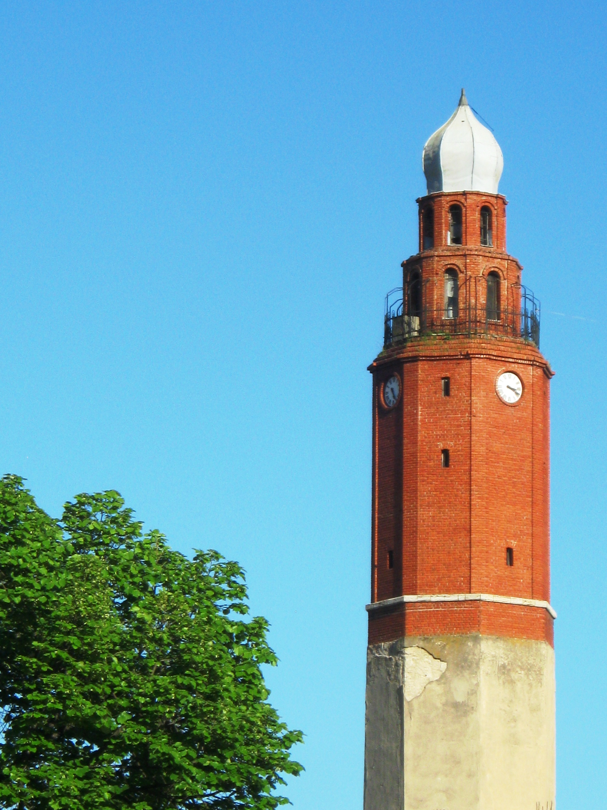 Clocktower in Skopje